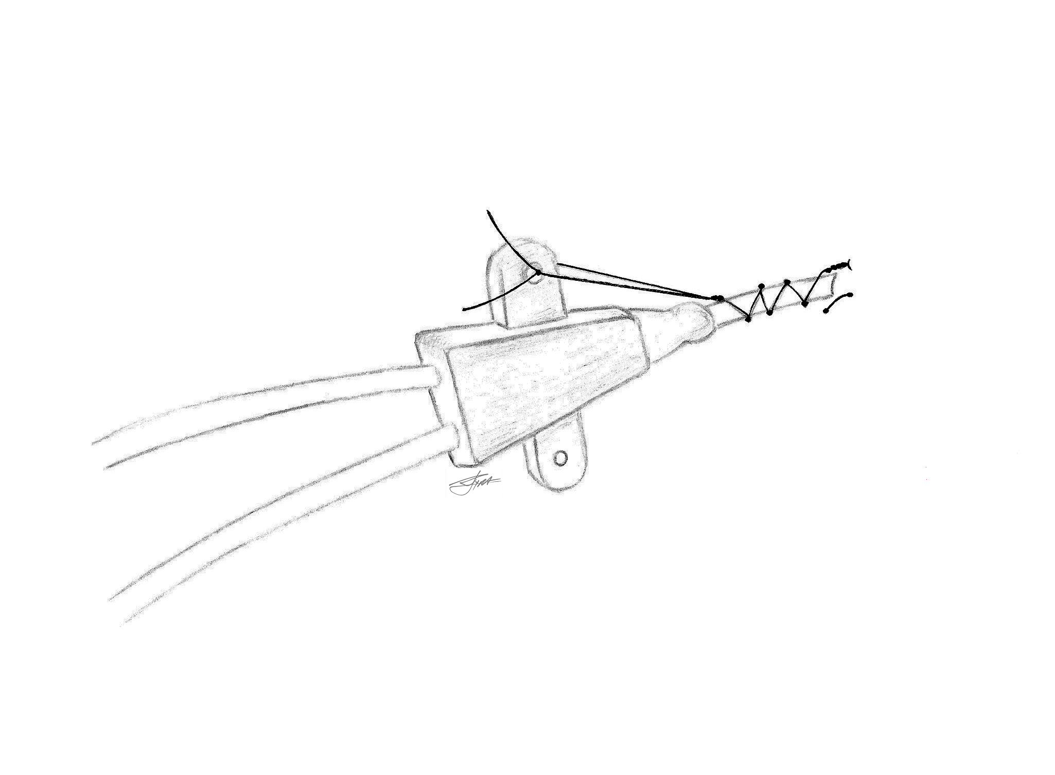 A technique for the safe, secure, and convenient fixation of subclavian central venous catheters to the skin.